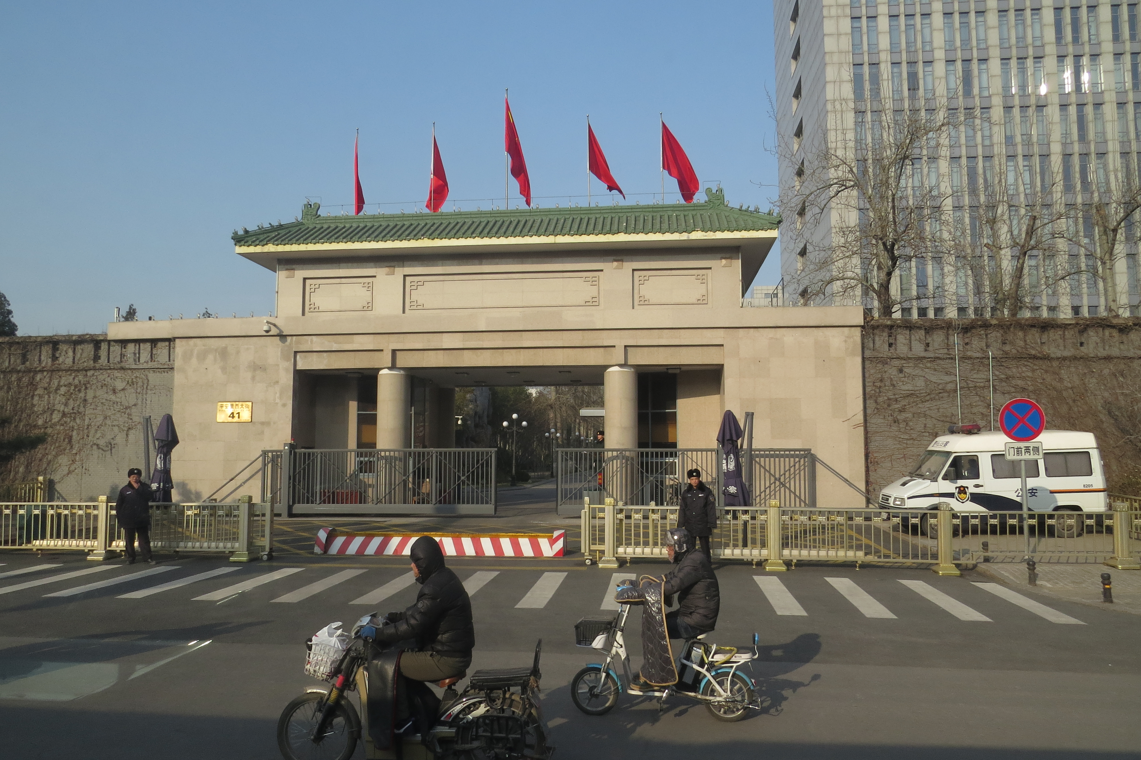 41 Ping'anli West Street...here's the headquarters of Central Commission for Discipline Inspection.